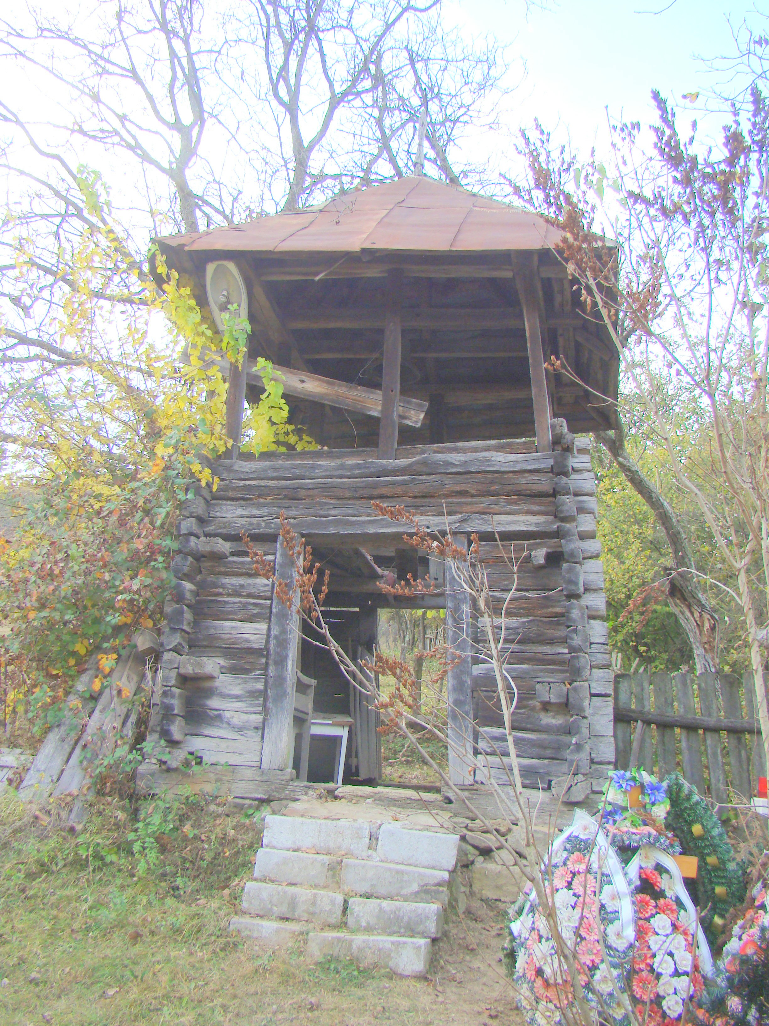 Wooden church in Pistrița, Mehedinți county, Romania